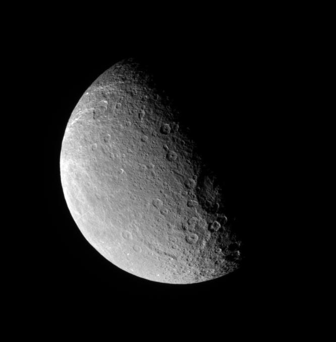 The Cassini spacecraft looks down onto middle northern latitudes on Rhea. The large Tirawa basin is seen on the terminator at right. Lit terrain seen here is primarily on the trailing side of Rhea (1,528 kilometers, or 949 miles across). North is up. The image was taken in visible light with the Cassini spacecraft narrow-angle camera on Dec. 17, 2007. The view was obtained at a distance of approximately 539,000 kilometers (335,000 miles) from Rhea and at a Sun-Rhea-spacecraft, or phase, angle of 79 degrees. Image scale is 3 kilometers (2 miles) per pixel.